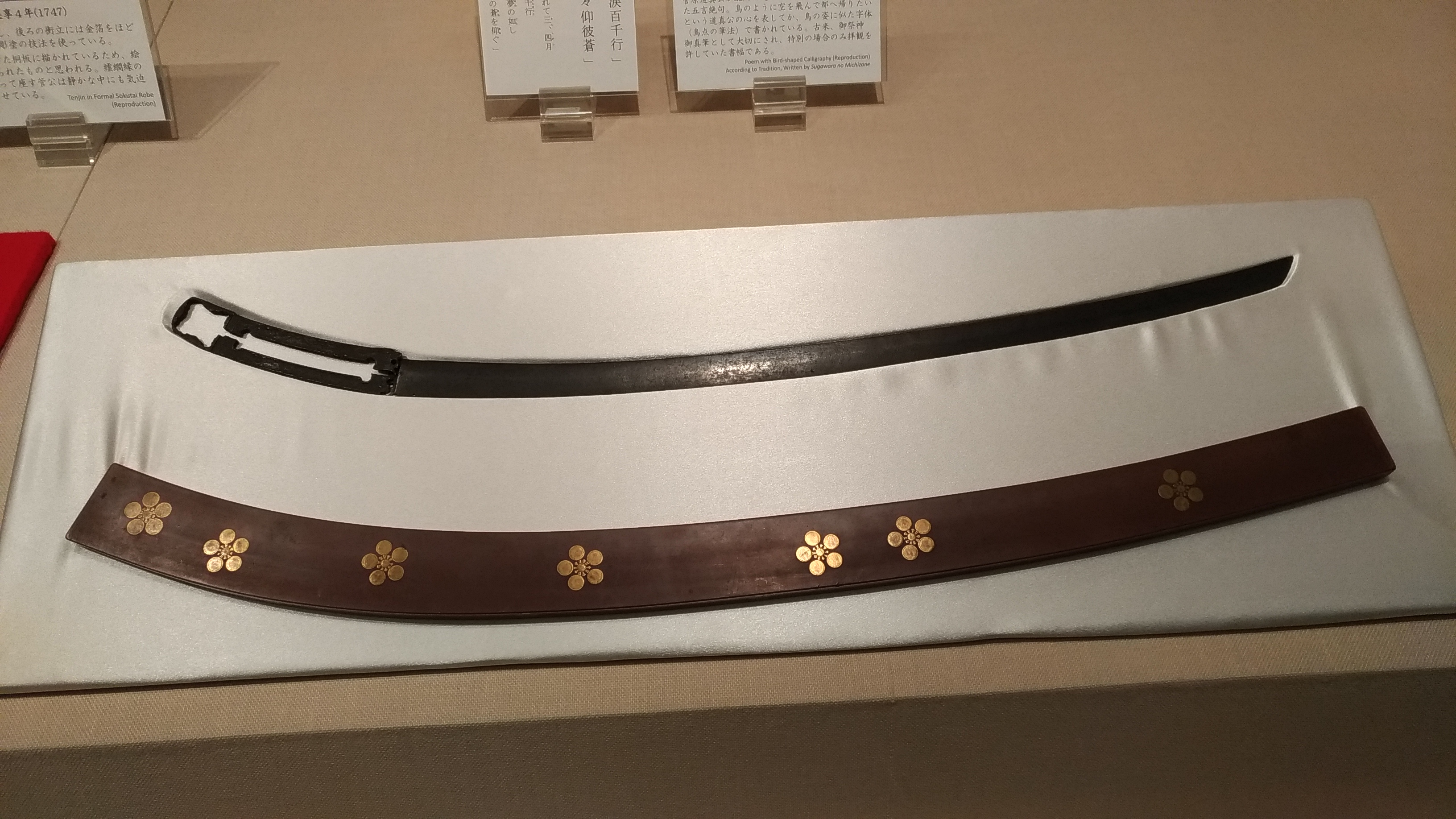 Kenuki-gata Tachi used by Sugawara Michizane in Heian period